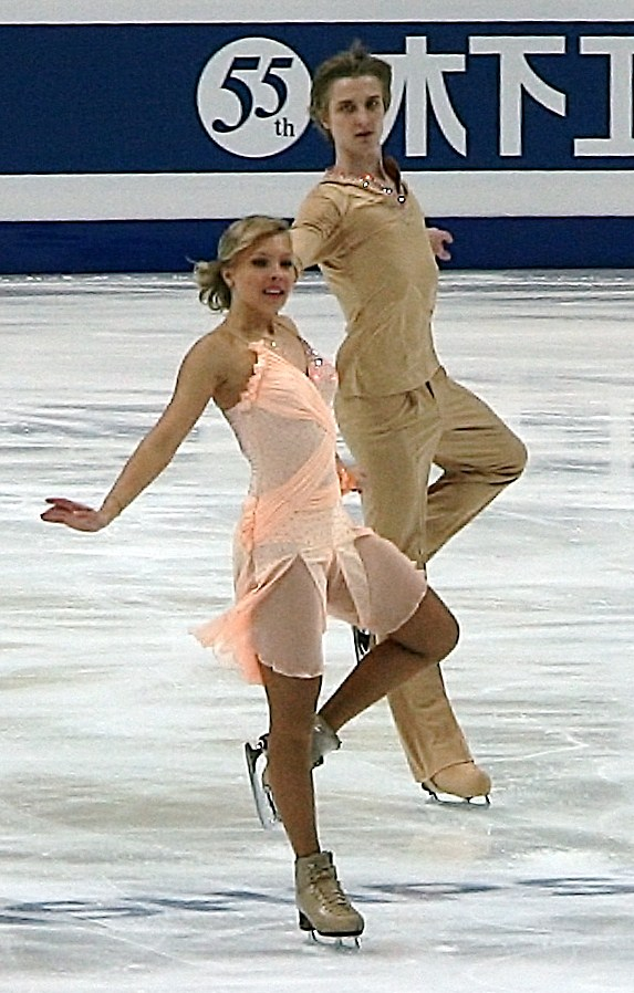 Lesia Valadzenkava and Vitali Vakunov at the 2011 World Figure Skating Championships